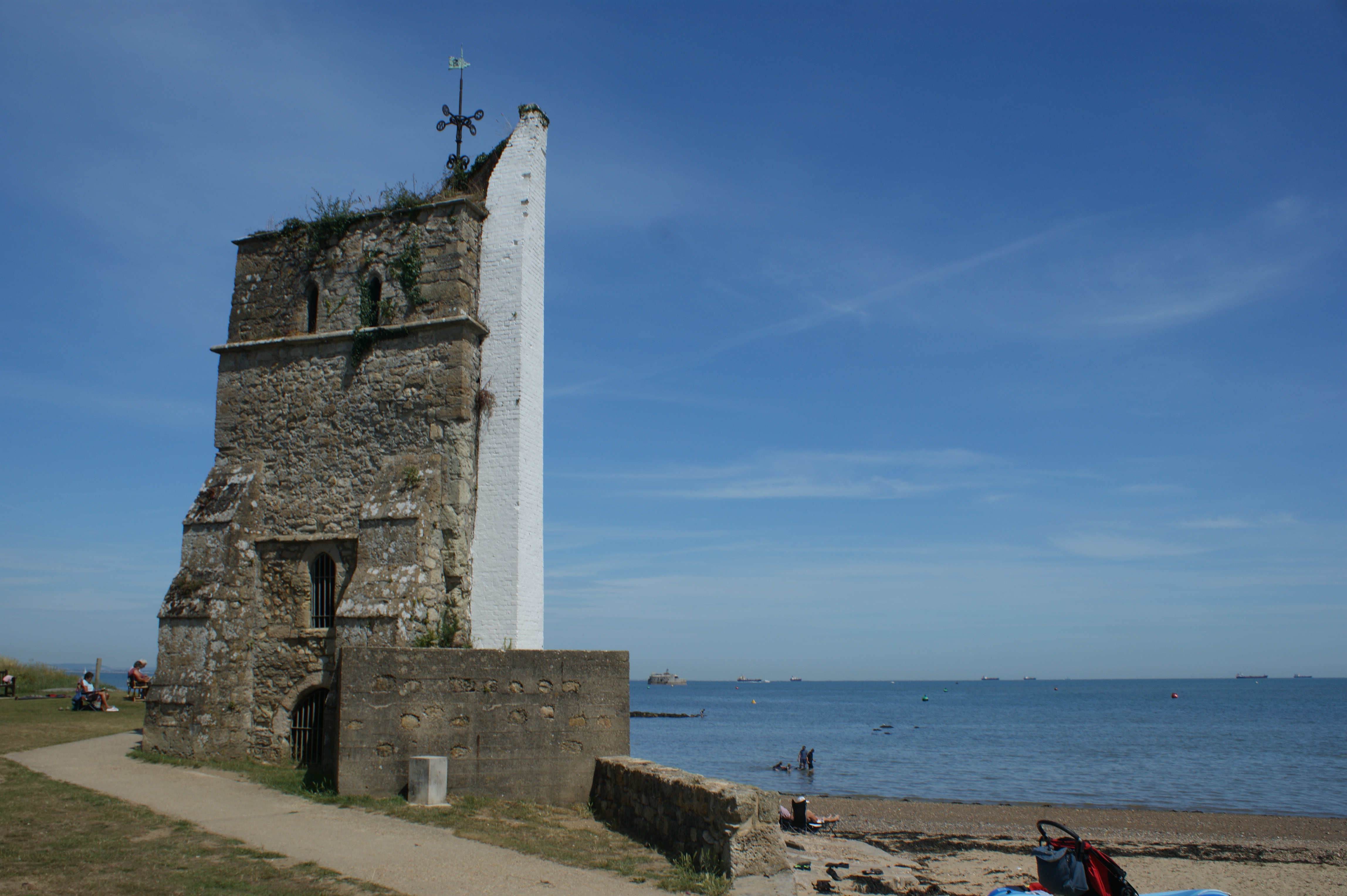 The old church on the seafront of St Helens, Isle of Wight.